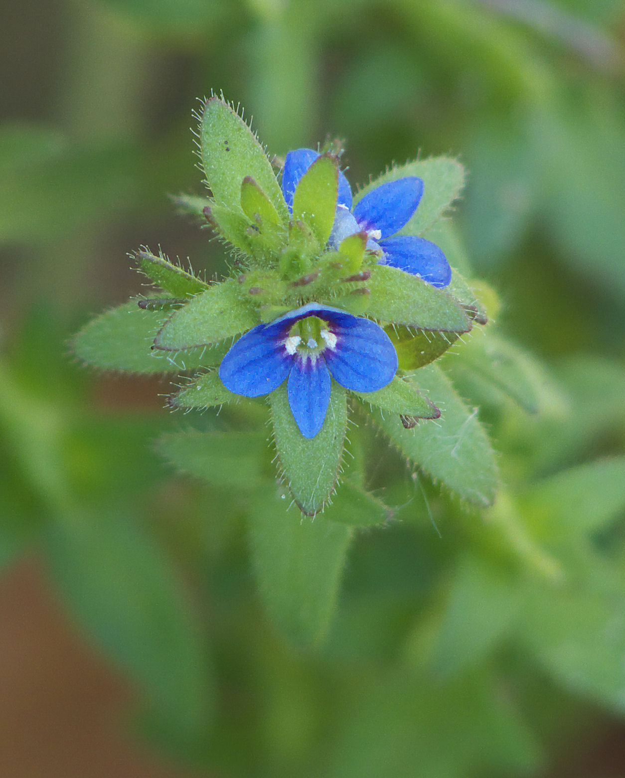 Veronica arvensis flowers